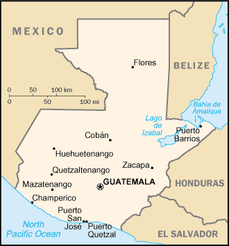 Map of Guatemala showing major cities